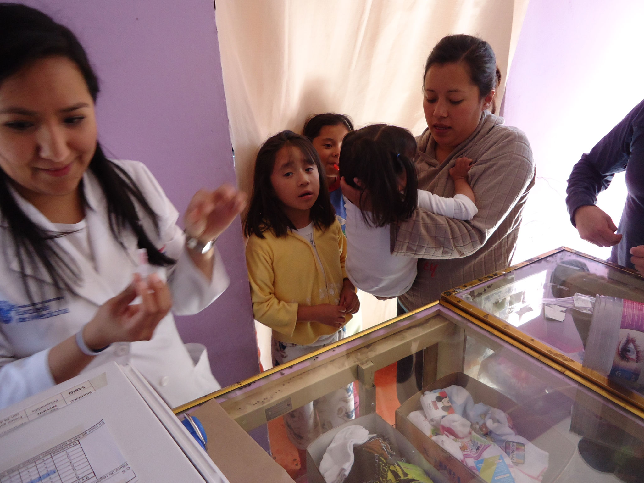 We vaccinate pediatric patients with the Sabin vaccine (againts Polio) in San Miguel Topilejo, Mexico. February, 23, 2013.